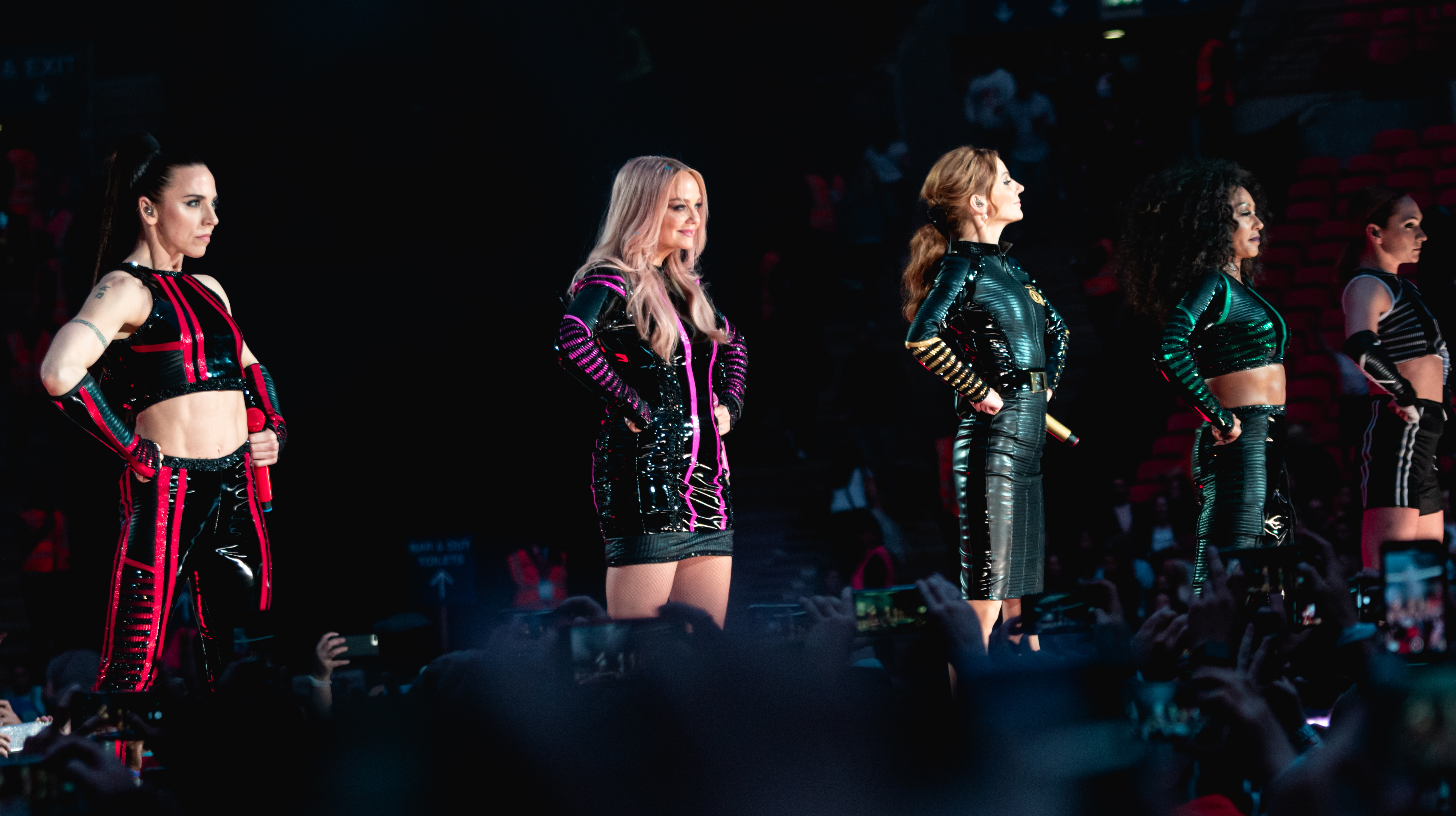 SpiceGirlWembley150619-39